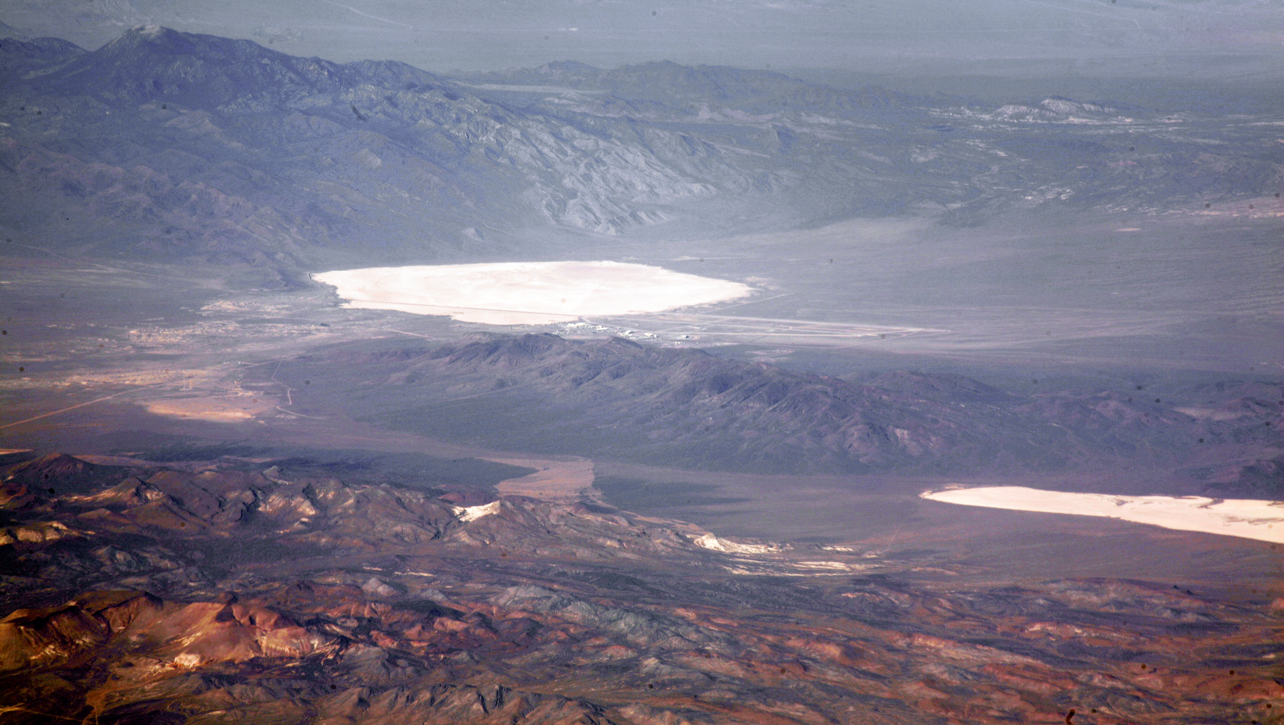 Groom Lake and Papoose Lake, both in the Nevada Test and Training Range. Groom Lake is also in Area 51. Note that some of the lines you see beside Groom lake are among the longest runways on Earth.